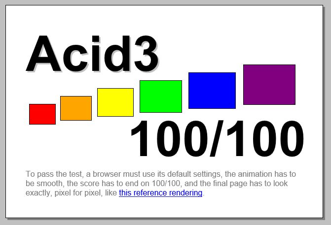 IE 11.0.9431 Preview scoring 100/100 on Acid3